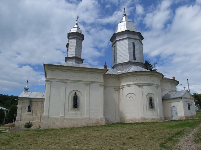 Picture made by Laurentiu Constantinescu, May 2006, Ratesti Monastery, Buzau County, Romania